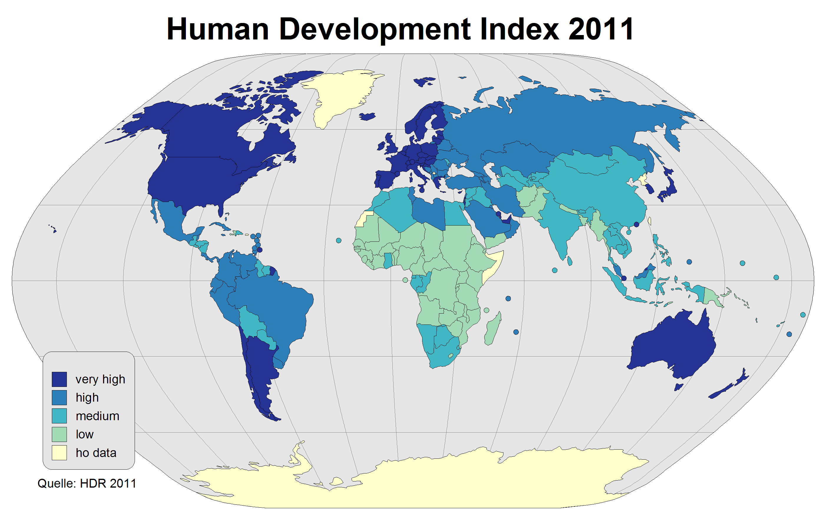 HDI 2011 colorsave version for color impaired people